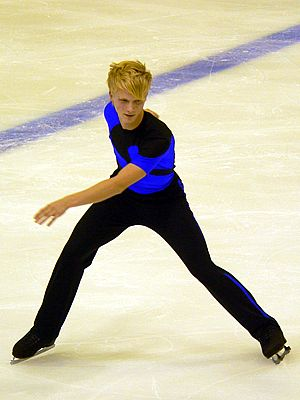 Adrian Schultheiss during his exhibition at the 2005 Junior Grand Prix event in Croatia